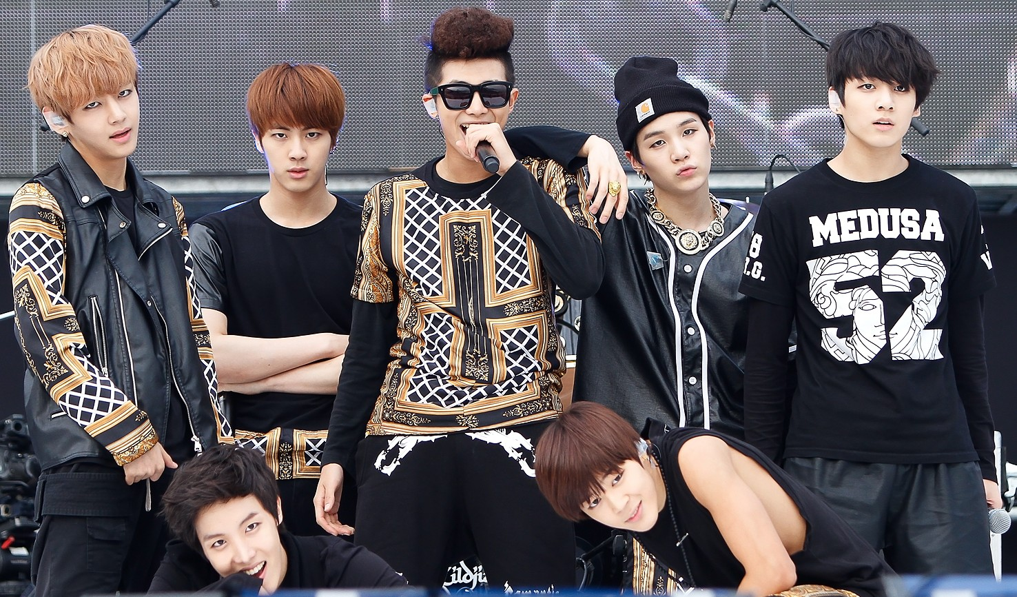 BTS performing on July 27, 2013